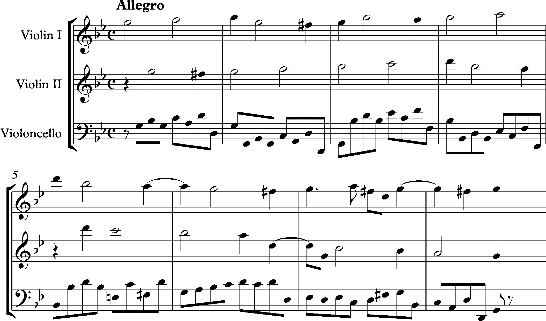 Arcangelo Corelli, Christmas Concerto, second movement